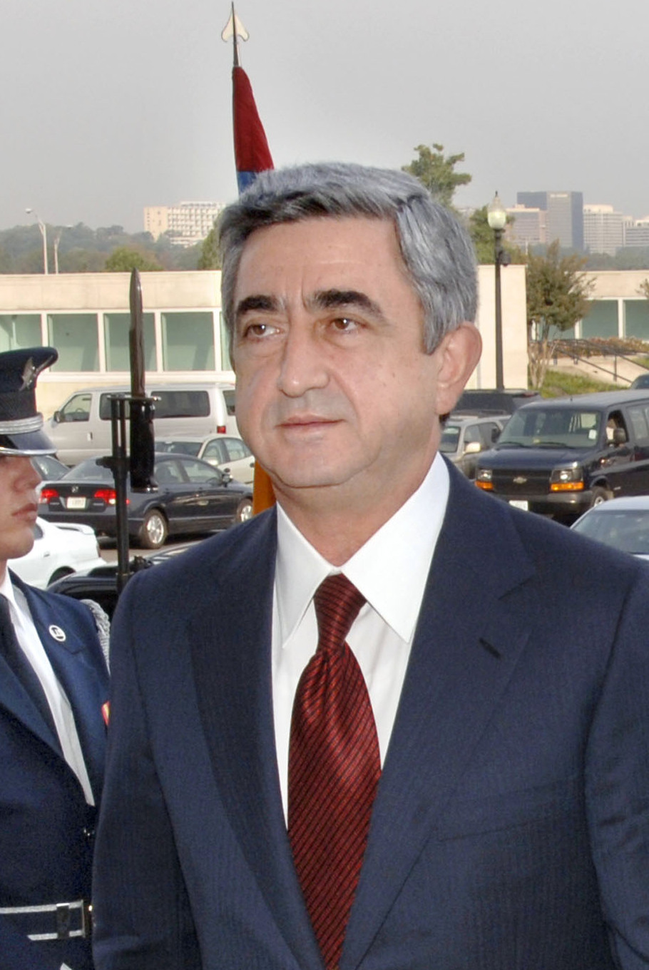 Serzh Sargsyan, Armenian Prime Minister